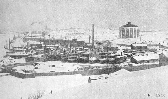 Aktiebolaget Vulcan shipyard and engineering works in Turku, Finland.